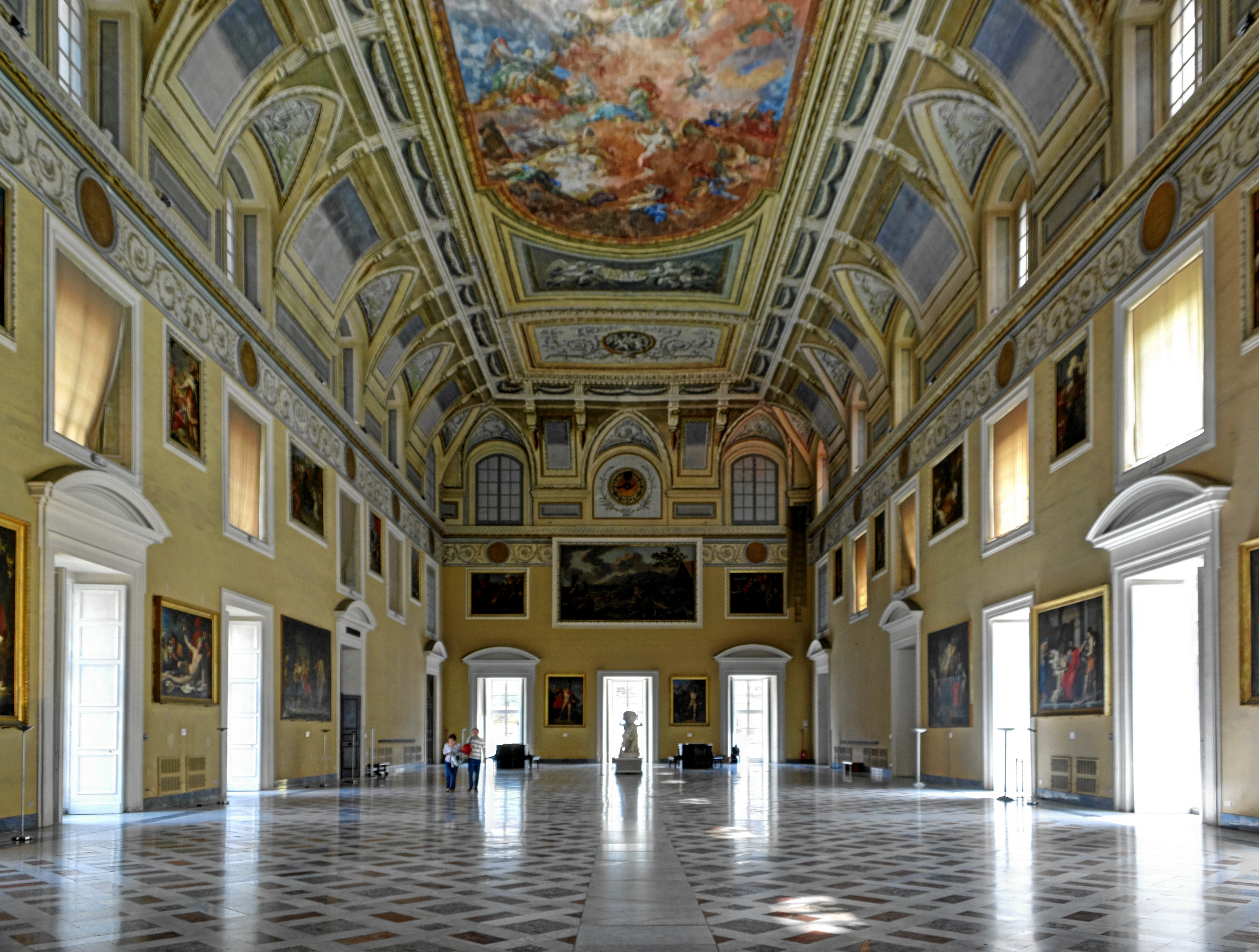 Naples, National Archaeological Museum